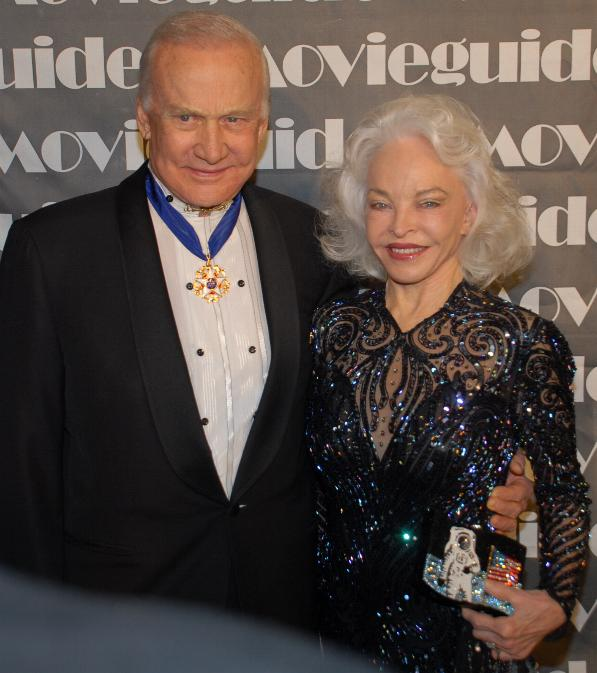 Astronaut Buzz Aldrin and his wife, Lois Driggs Cannon, at the 16th Annual MovieGuide Faith and Values Awards Gala